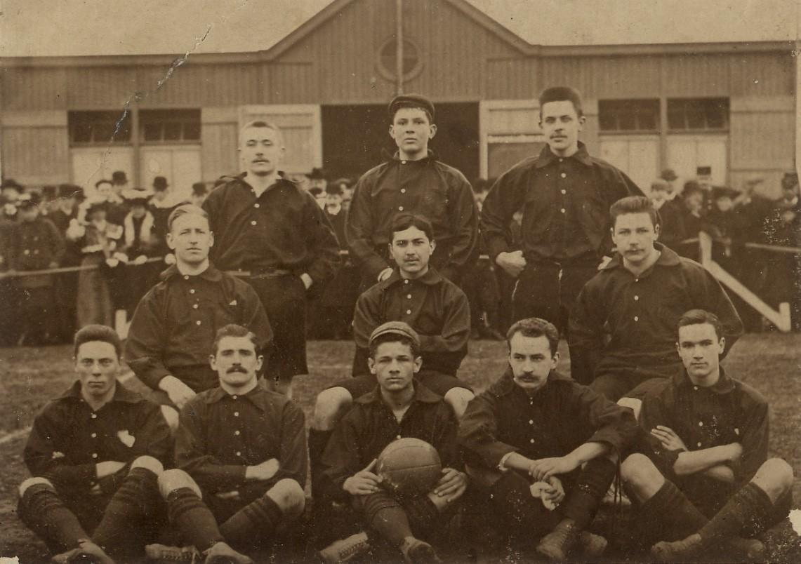 HFC Haarlem 1904